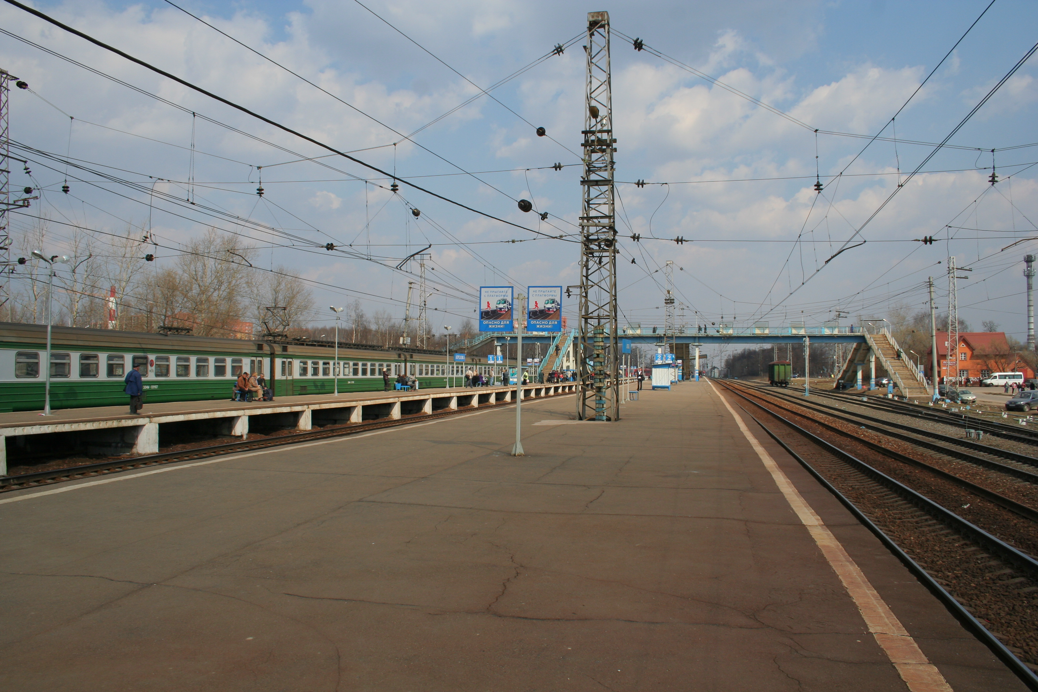 Train station Aprelevka, Moscow Oblast, Russia